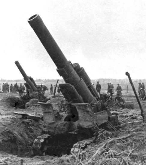 battery of soviet heavy 203mm howitzers m1931, 3rd belorussian front, summer 1944